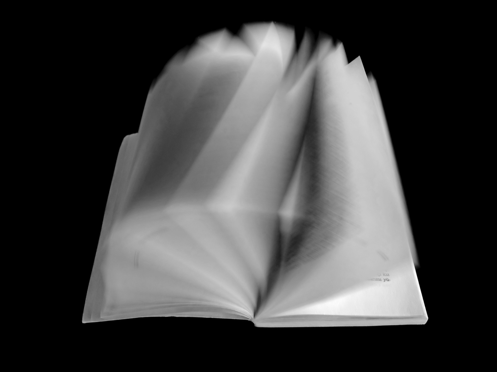 Book photograph with flipping pages.